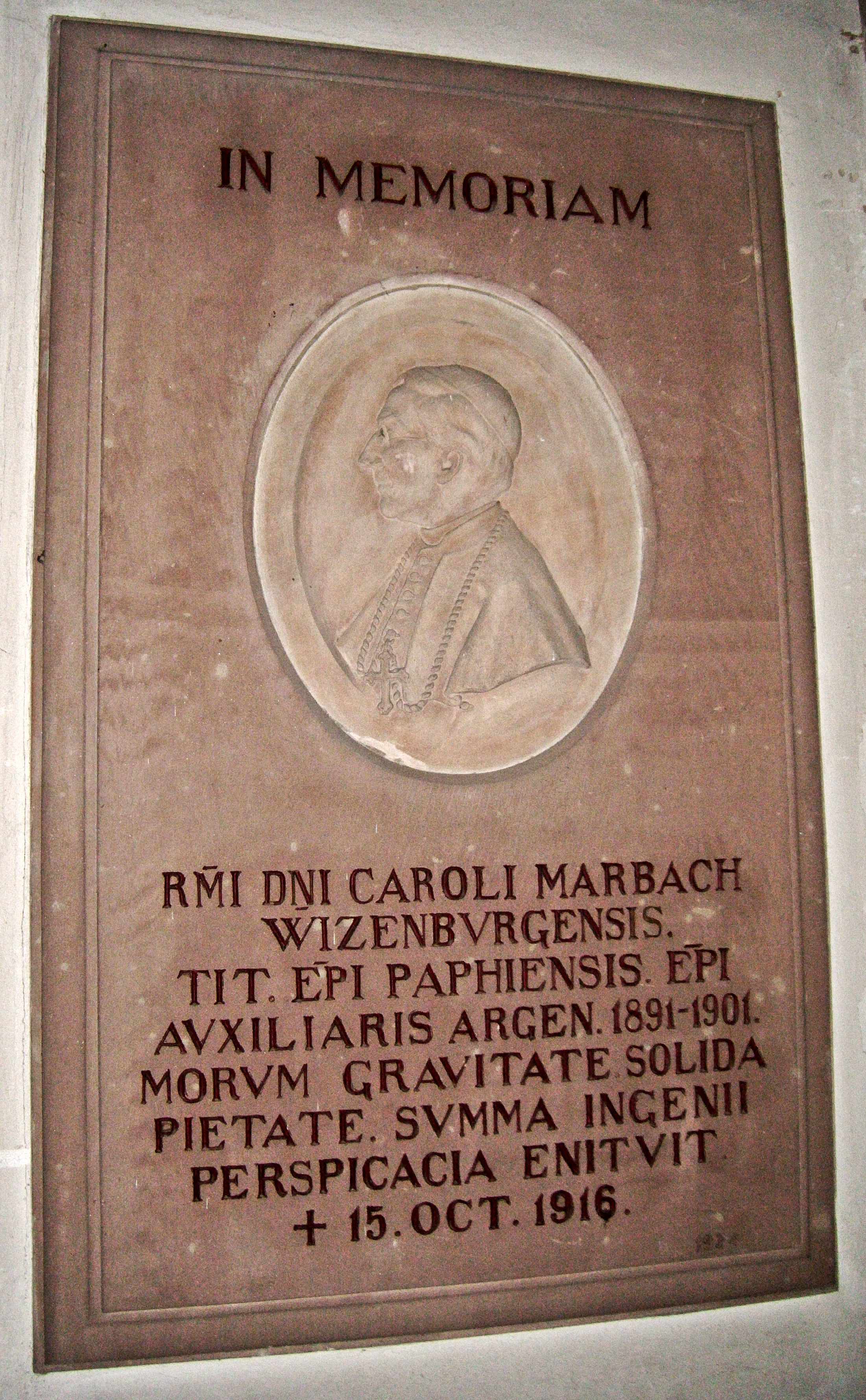 Epitaph für den Straßburger Weihbischof Karl Marbach (1841-1916) Abteikirche St. Peter und Paul, Wissembourg.